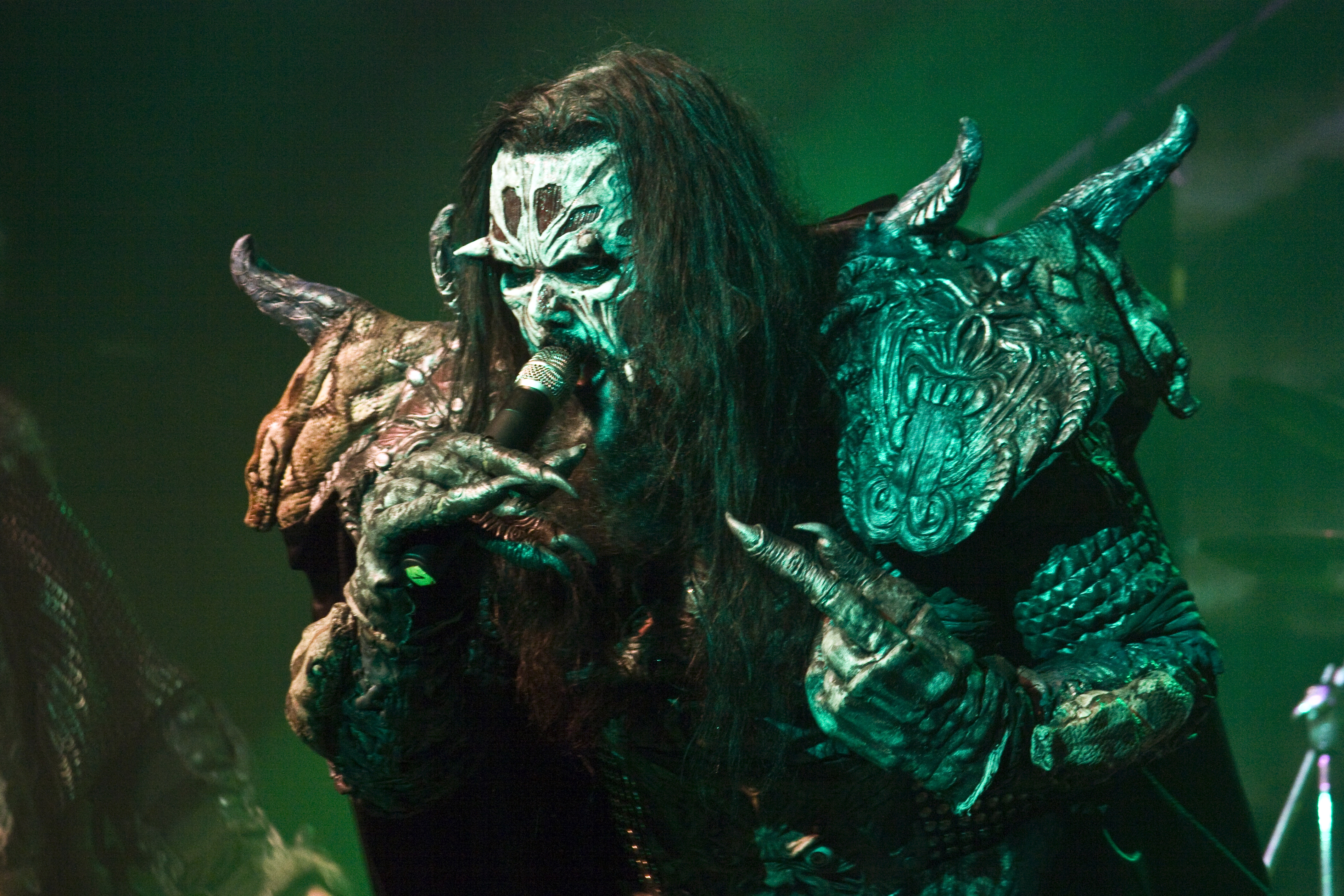 Lordi in concert in Salamandra, Barcelona, Spain.